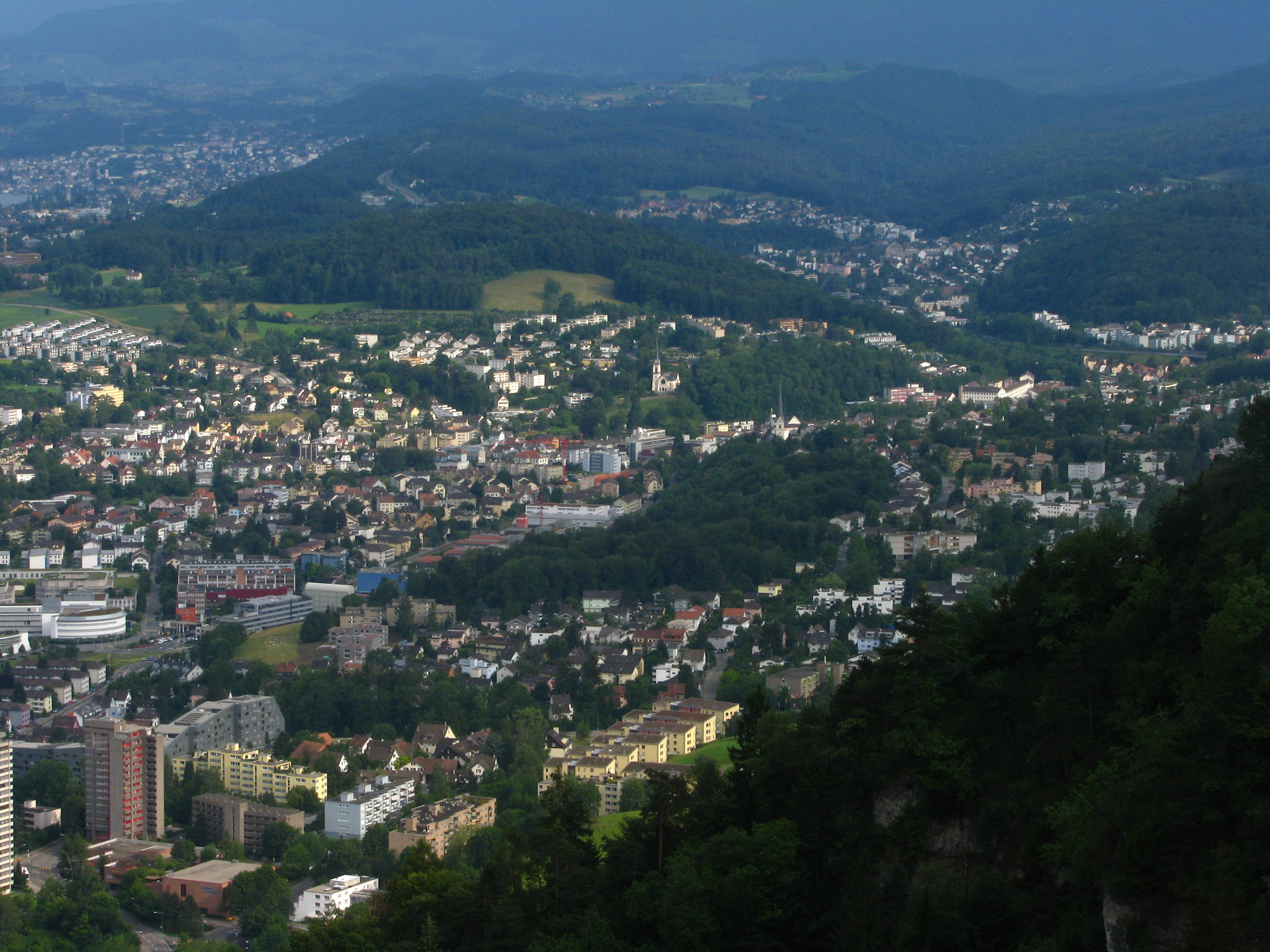 Sihl valley, Langnau am Albis, and Zimmerberg in the background, as seen from Felsenegg.